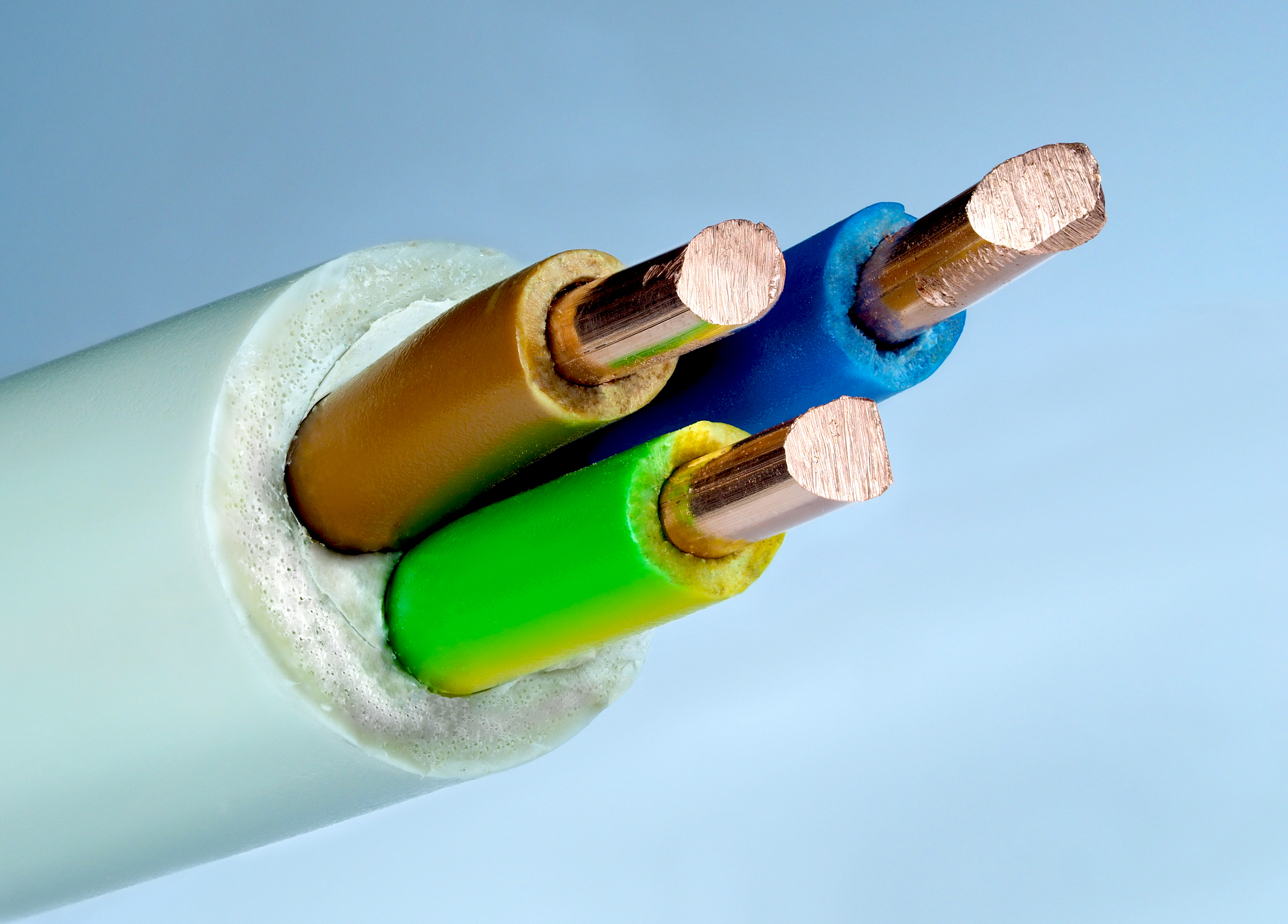 Electric guide (electric wire) 3×2.5 mm (diameter)